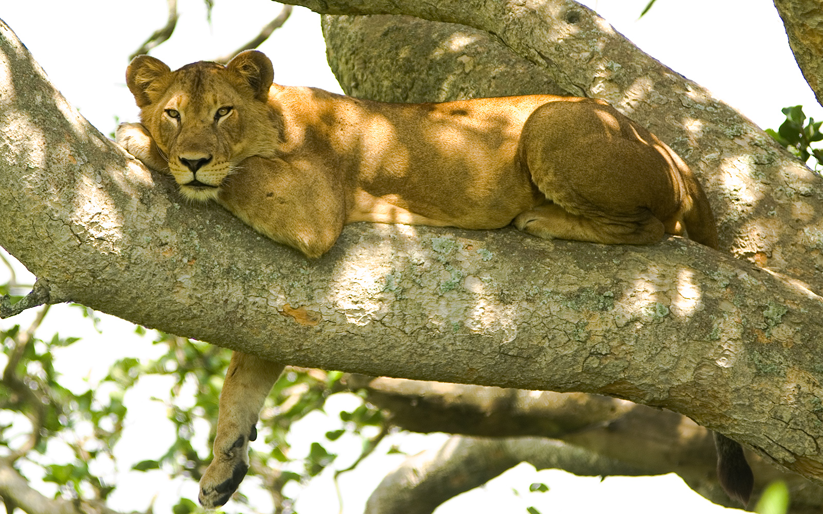 A female lioness in Ishasha Southern sector of Queen Elizabeth National Park (Southwestern Uganda). Ishasha lions are famed for tree climbing, a trait only shared with other lions in the Lake Manyara region. They often spend the hottest parts of the day in the large fig trees found throughout the area. It is still unclear why so few lions exhibit this behavior.